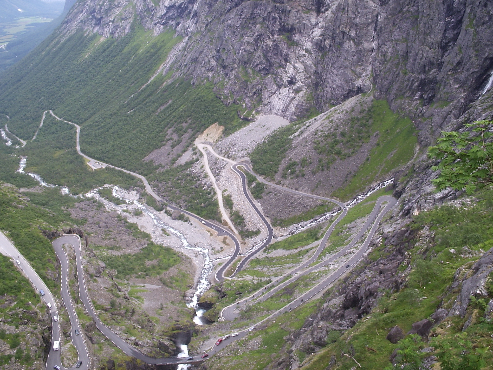 Trollstigen road, Norway, photographed by myself in July 2006.